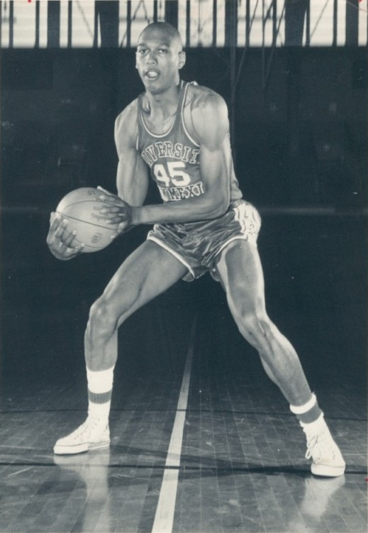 Professional basketball player Mel Daniels